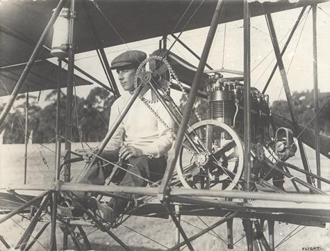 John Robertson Duigan at the Controls of his Biplane, Bendigo Racecourse, Victoria, 3 May 1911 Photograph of John Robertson Duigan seated at the controls of his biplane, taken during a public demonstration of the aircraft attended by 1,000 people at the Bendigo Racecourse, 3rd May 1911. The photograph was possibly taken by Jophn's brother Reginald Duigan or by a newspaper photographer. Although French and American flying machines had already flown in Victoria, J.R. Duigan built and flew the first Australian-made flying machine in 1910. This image taken at the Bendigo Racecourse on 3 May 1911, was published in the Bendigo Advertiser, 4 May 1911, and in the British aviation journal 'Flight' (London), 6th April 1912. (